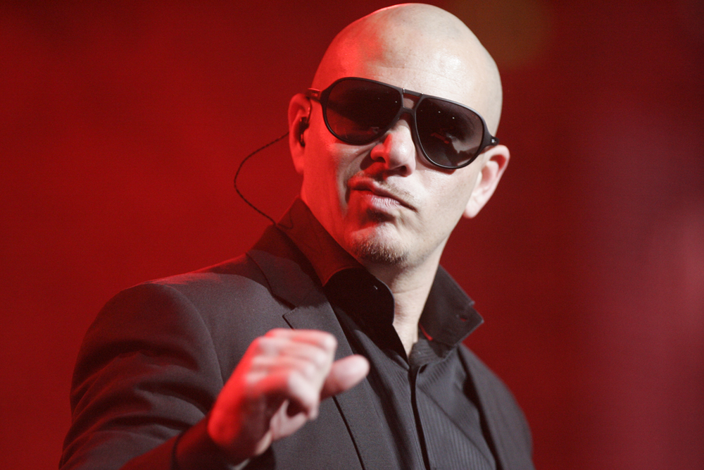 Pitbull performing at the Australian leg of his Planet Pit World Tour in Sydney, Australia.